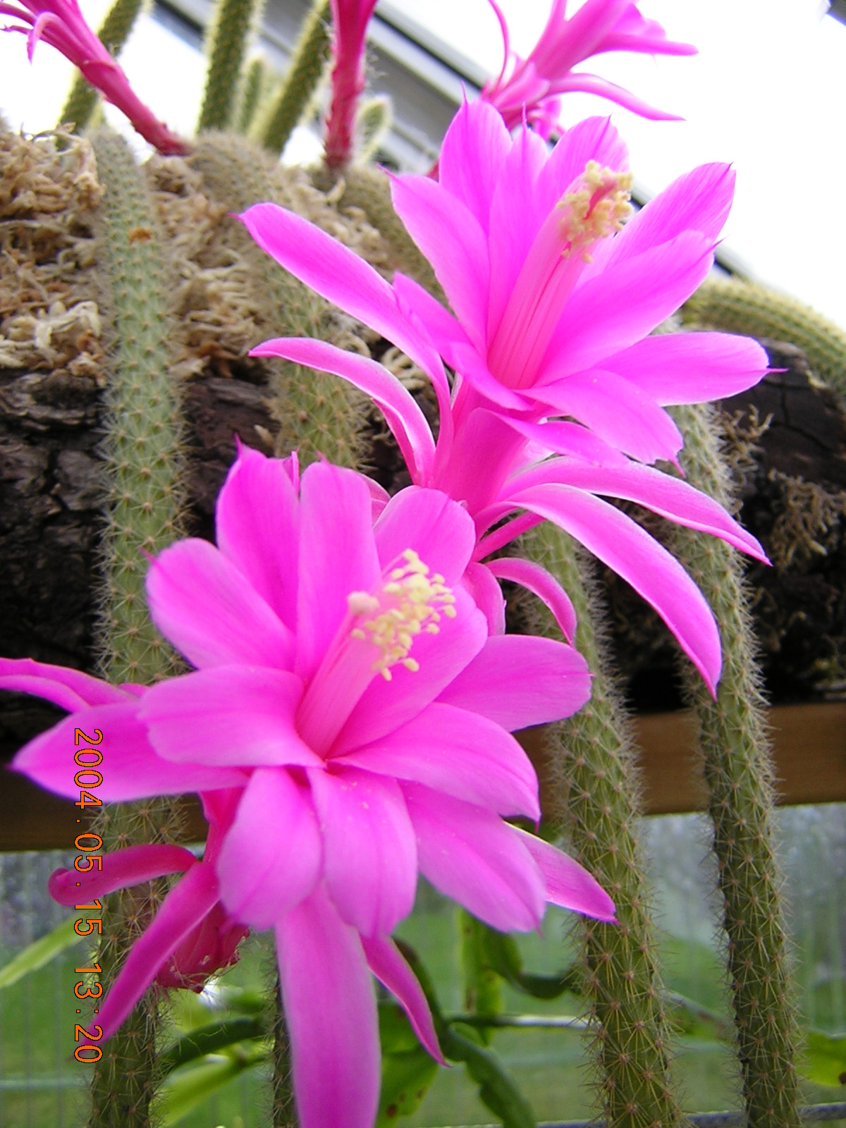 Disocactus flagelliformis